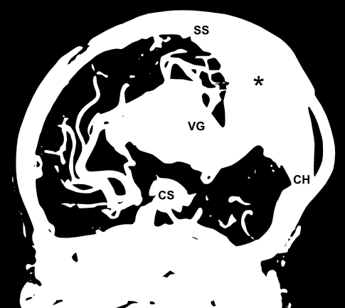 delineation of structures visible on Image:Vein of galen sag mip.jpg angiogram. CS - cavernous sinus; CH - confluens sinuum (Herophili); VG - dilated vein of Galen; * is in the place of dilated falcine sinus